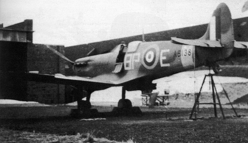 A Spitfire MkVb of No.457 Squadron RAAF undergoing gun calibration at RAF Andreas, Isle of Man